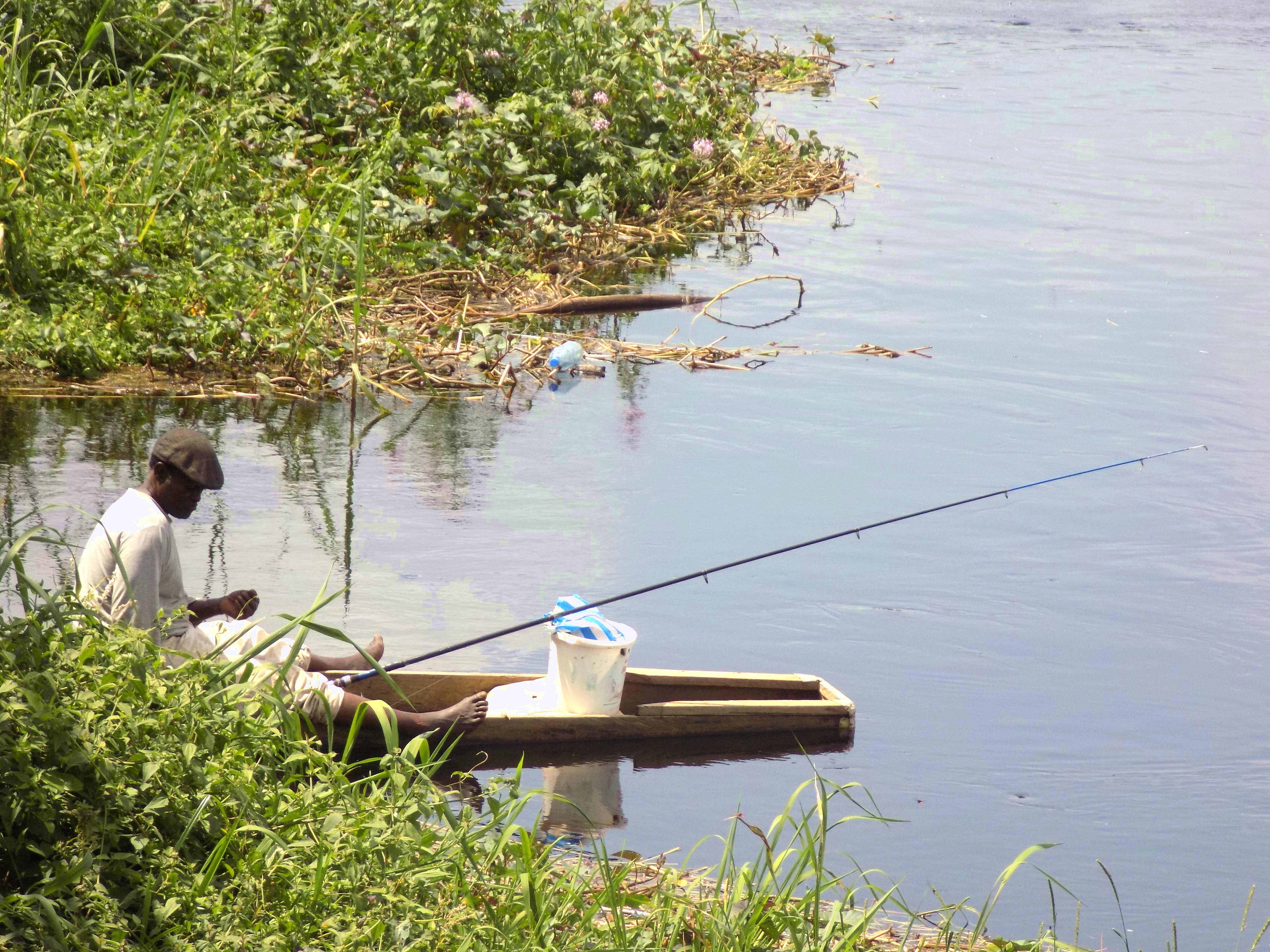 fisherman on the river nyong This is an image of "African people at work" from Cameroon